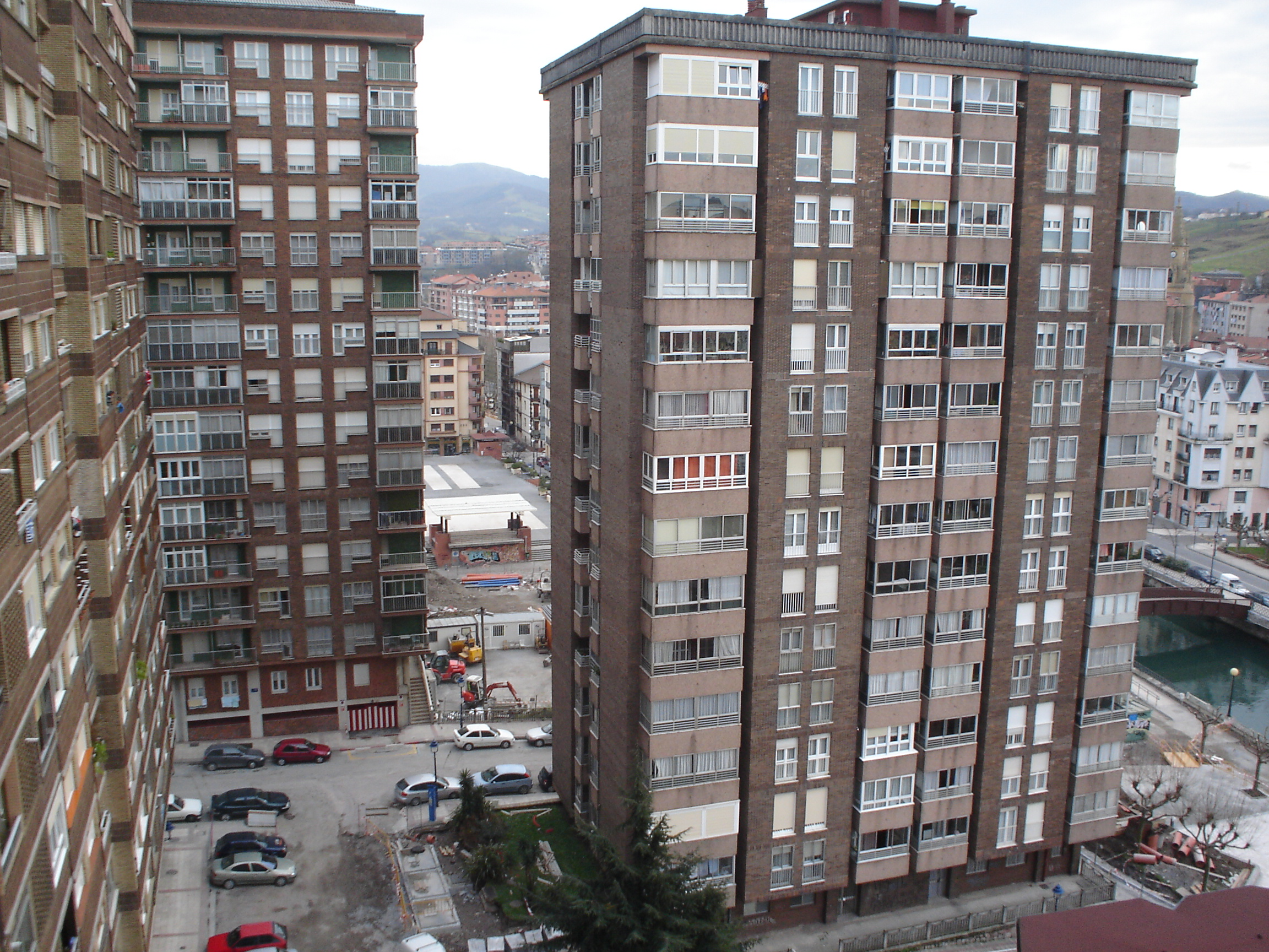 Olibet neighbourhood